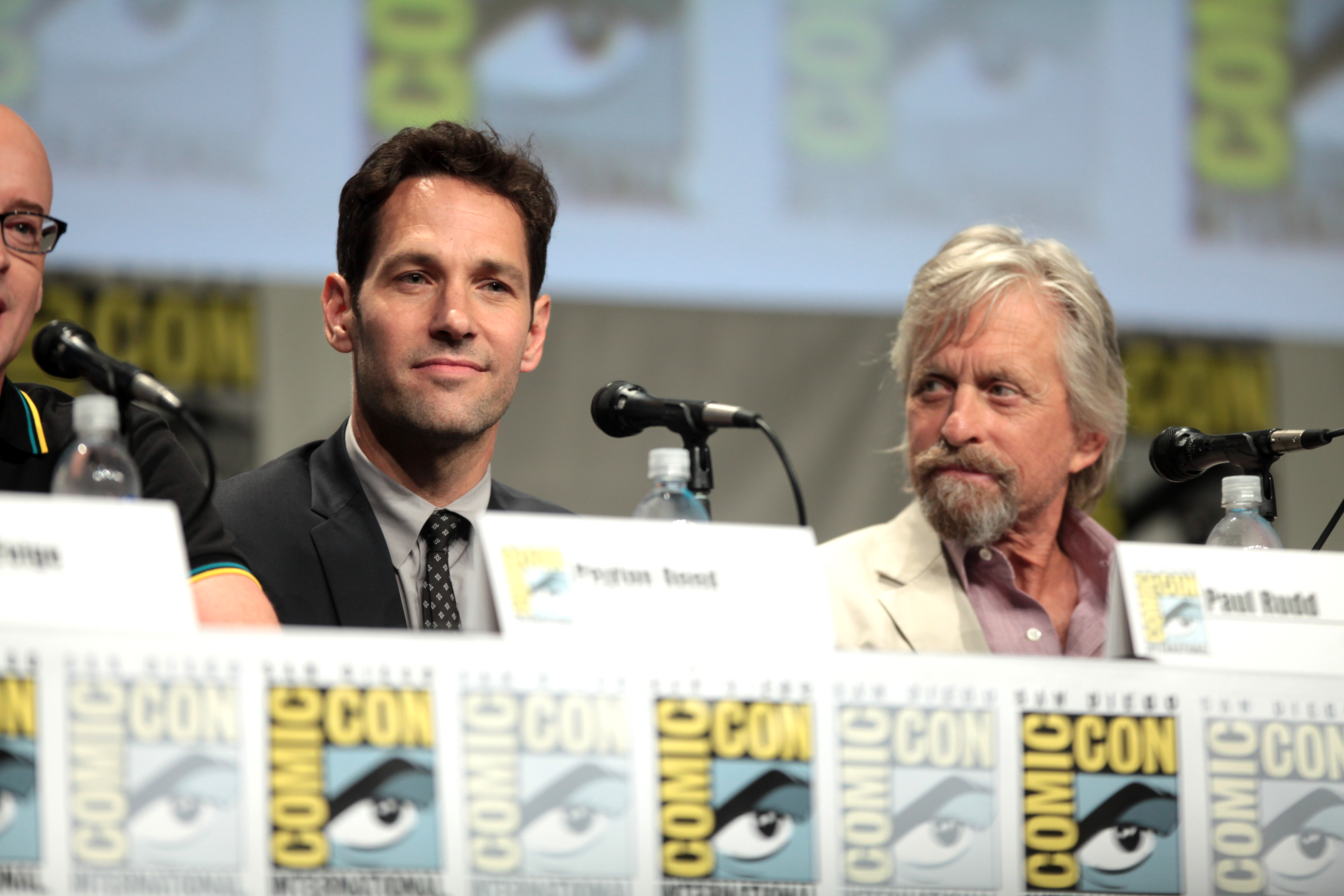 Paul Rudd and Michael Douglas speaking at the 2014 San Diego Comic Con International, for "Ant Man", at the San Diego Convention Center in San Diego, California.